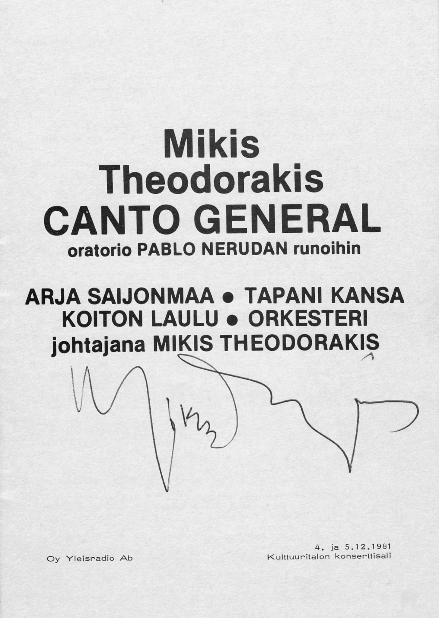 Mikis Theodorakis conducted the Canto General in Helsinki. Finnish soloists, choir and orchestra.